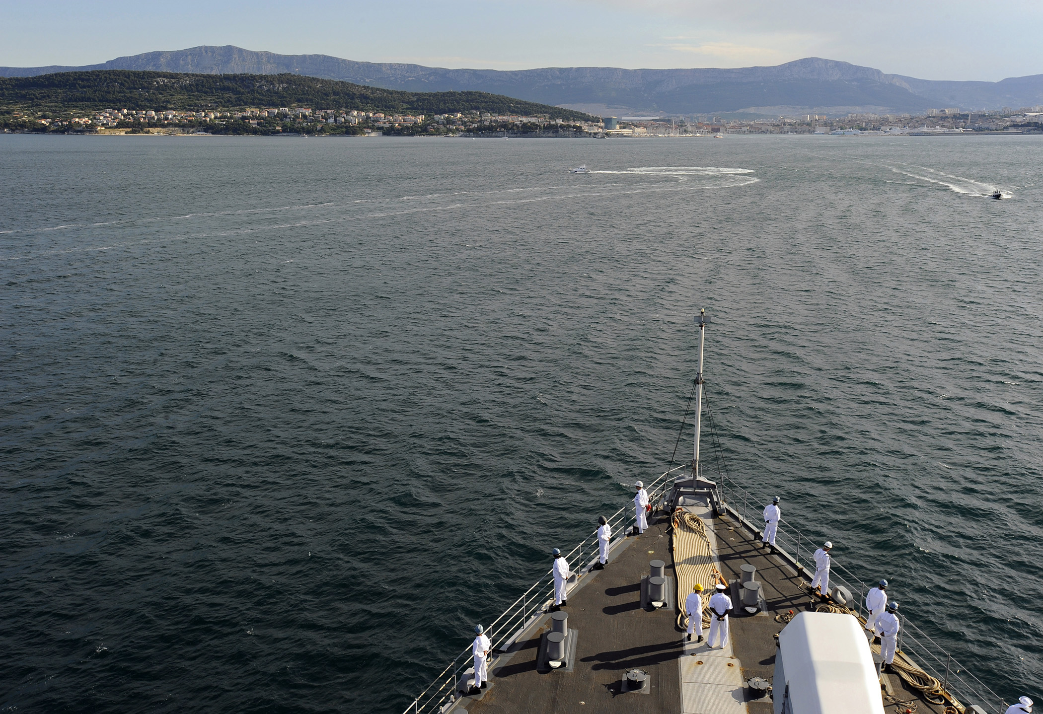 SPLIT, Croatia (May 30, 2009) Deck department Sailors man the foc'sle rails as the amphibious dock landing ship USS Fort McHenry (LSD 43) makes her approach to the port city of Split, Croatia. Fort McHenry is on a scheduled deployment with the Bataan Amphibious Readiness Group supporting maritime security operations in the U.S. 5th and 6th Fleet areas of responsibility. (U.S. Navy photo by Mass Communication Specialist 2nd Class Kristopher Wilson/Released)